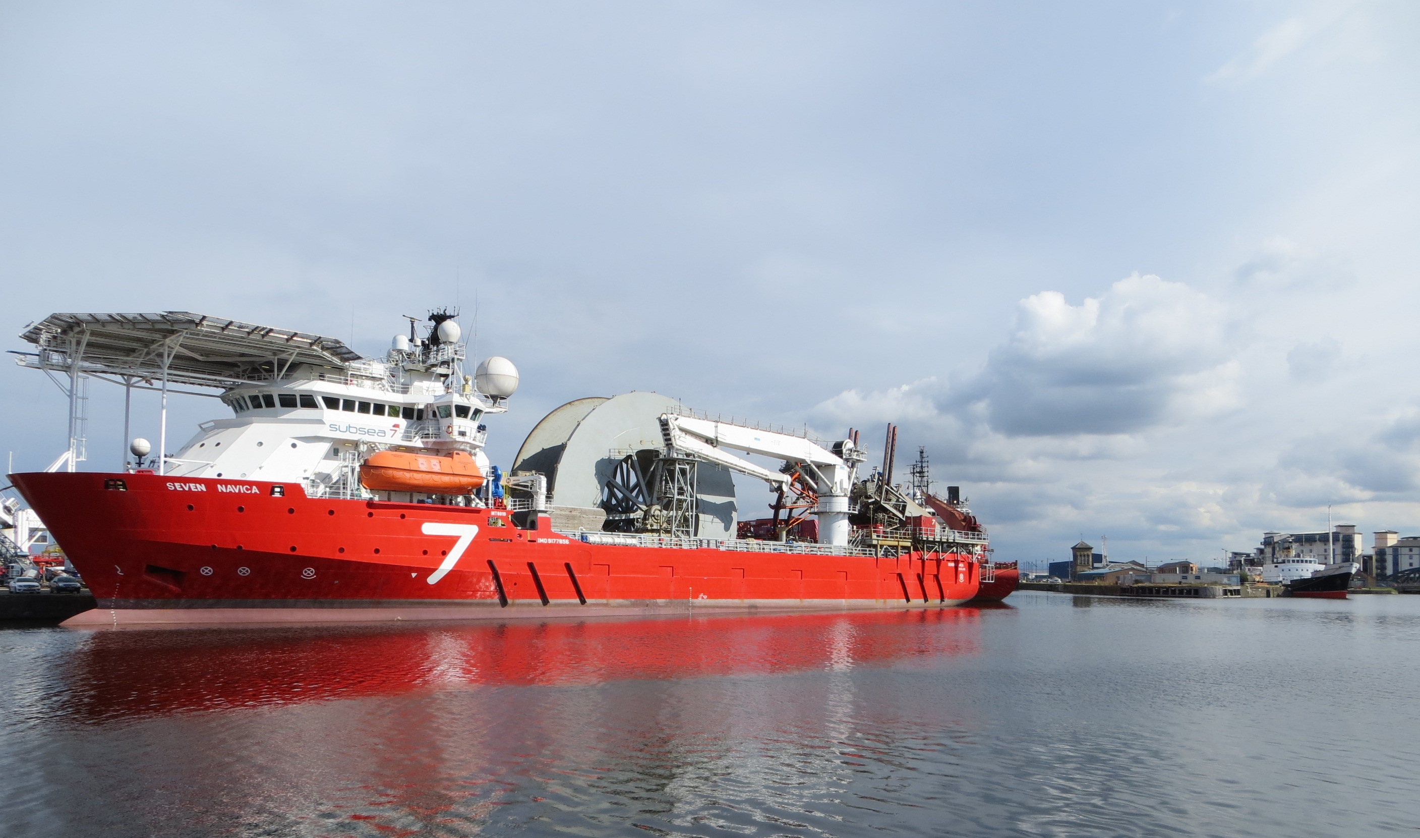 the Seven Navica, Leith Docks, September 2015